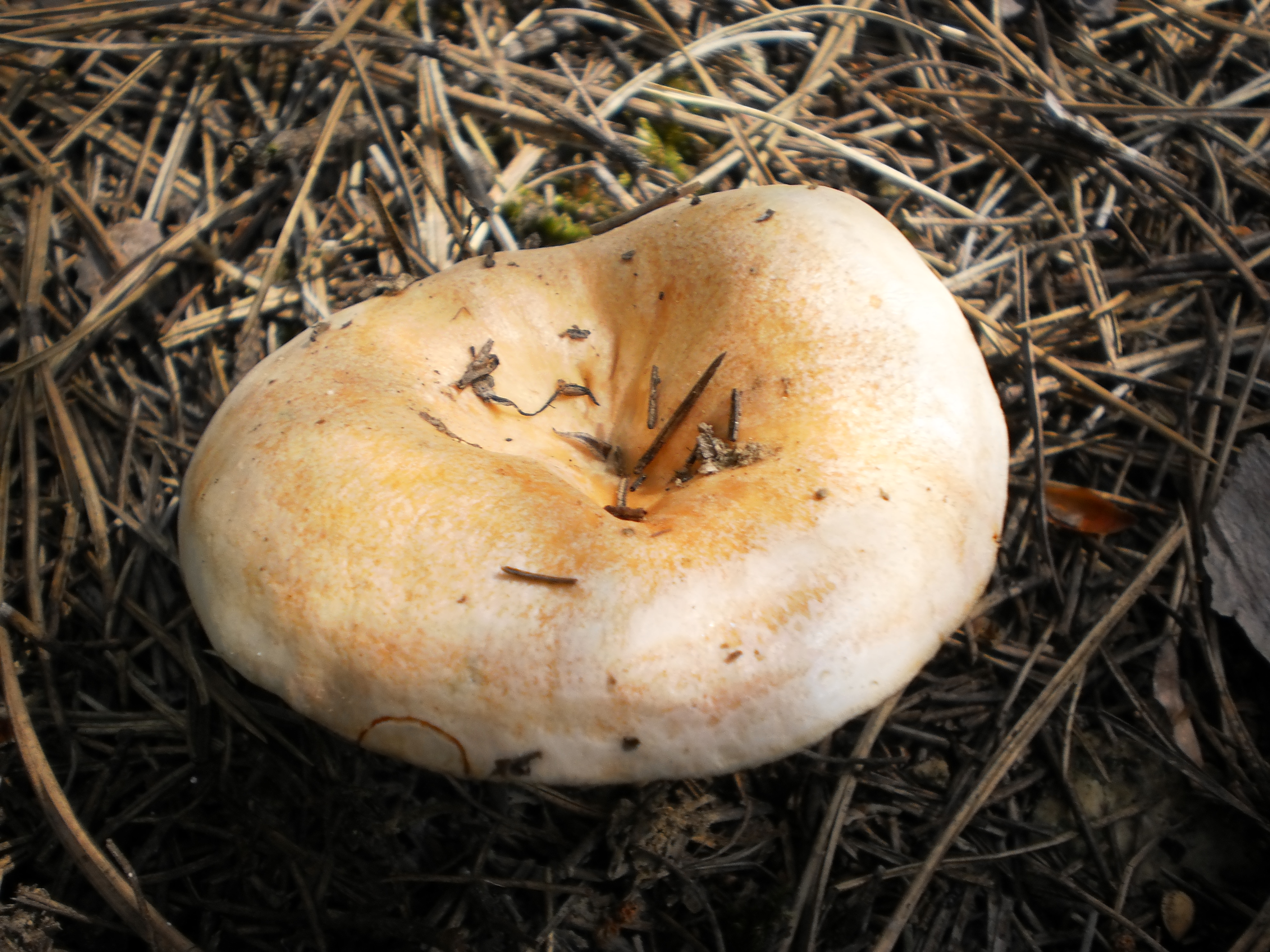 Lactarius Deliciosus, Saffron milk cap or Red pine mushroom. Own photograph. Photographed near Gabrovo, Bulgaria, 13 June 2010